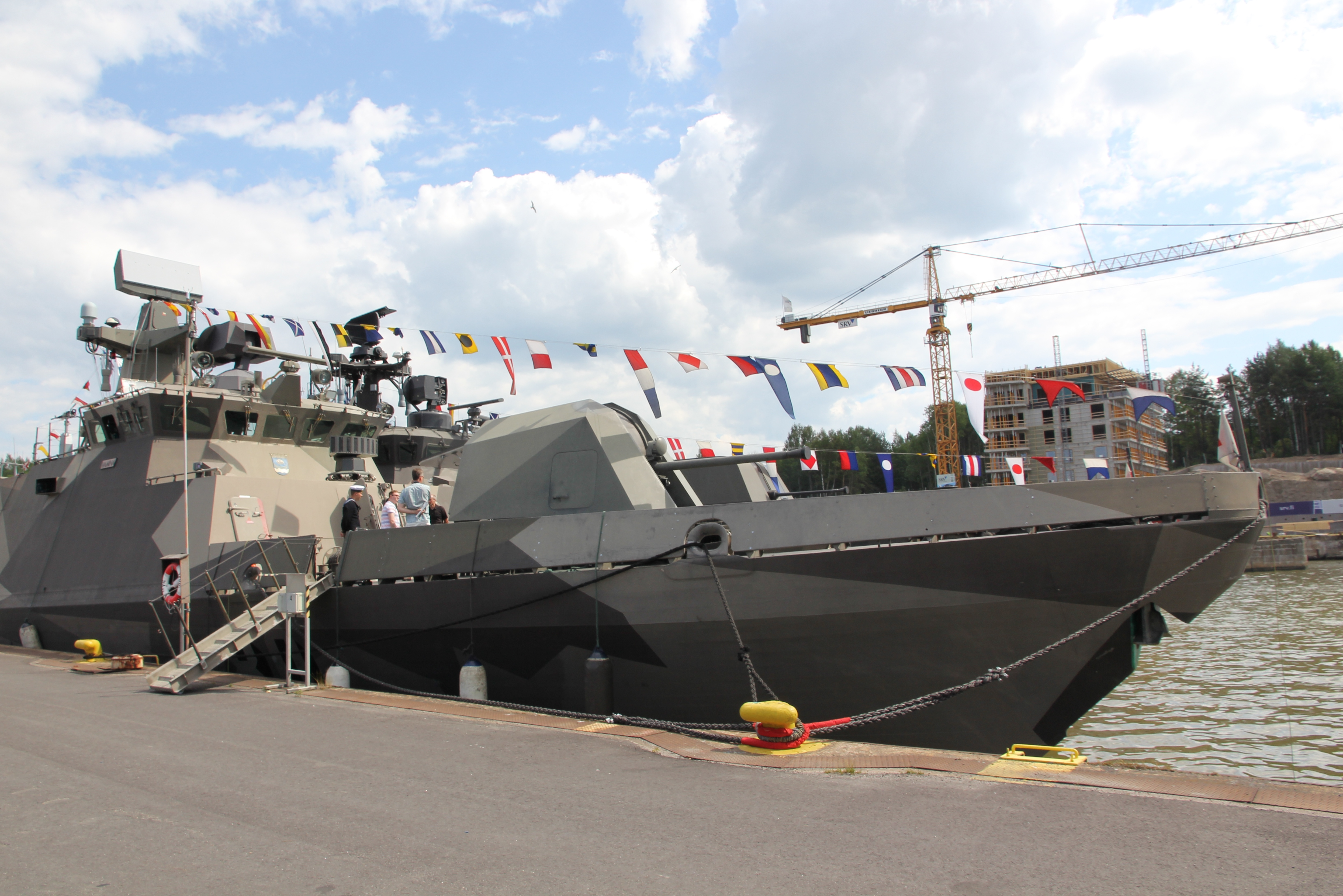 Fast attack craft Hamina (80) in Aura river in Turku during Finnish Navy 2014 anniversary.